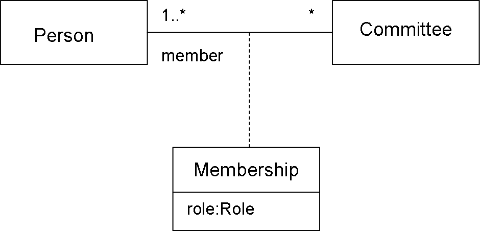 I created this example of a UML association class myself. This example supports article on Reification in computer science.